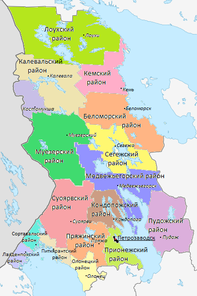 Map of the administrative-territorial division of the Republic of Karelia (2017)